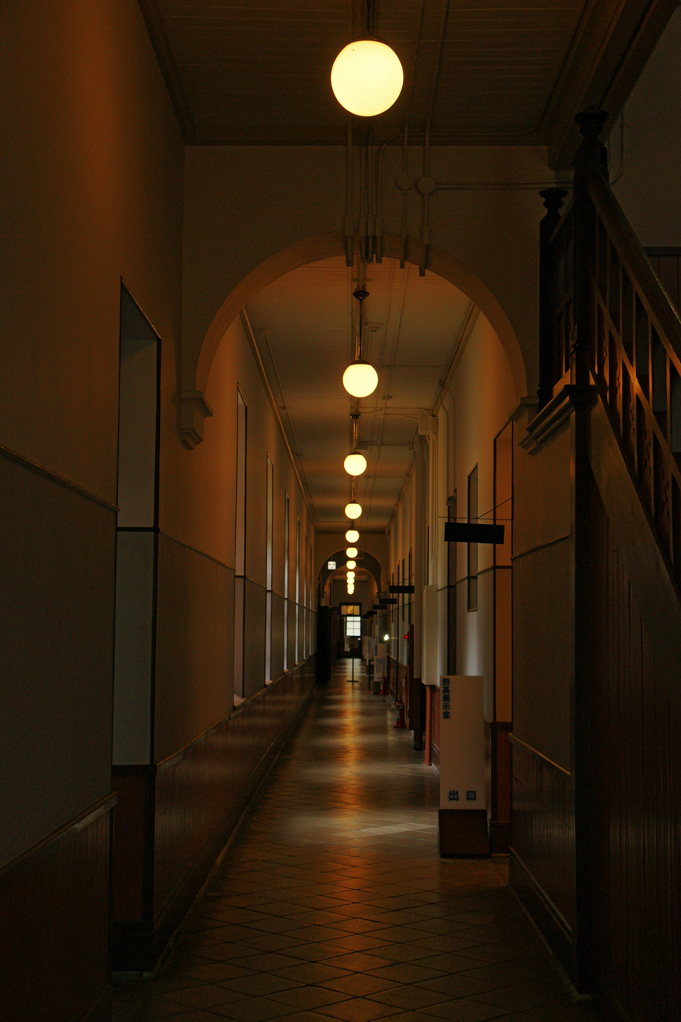 The Forth High School Memorial Museum of Cultural Exchange, Ishikawa (Ishikawa Modern Literature Museum) in Kanazawa, Ishikawa prefecture, Japan